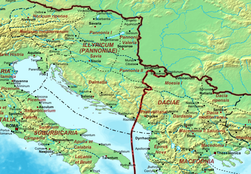 Map of the Roman Empire ca. 400 AD, showing the administrative division into dioceses and provinces, as well as the major cities. The demarcation between Eastern and Western Empires is noted in red.